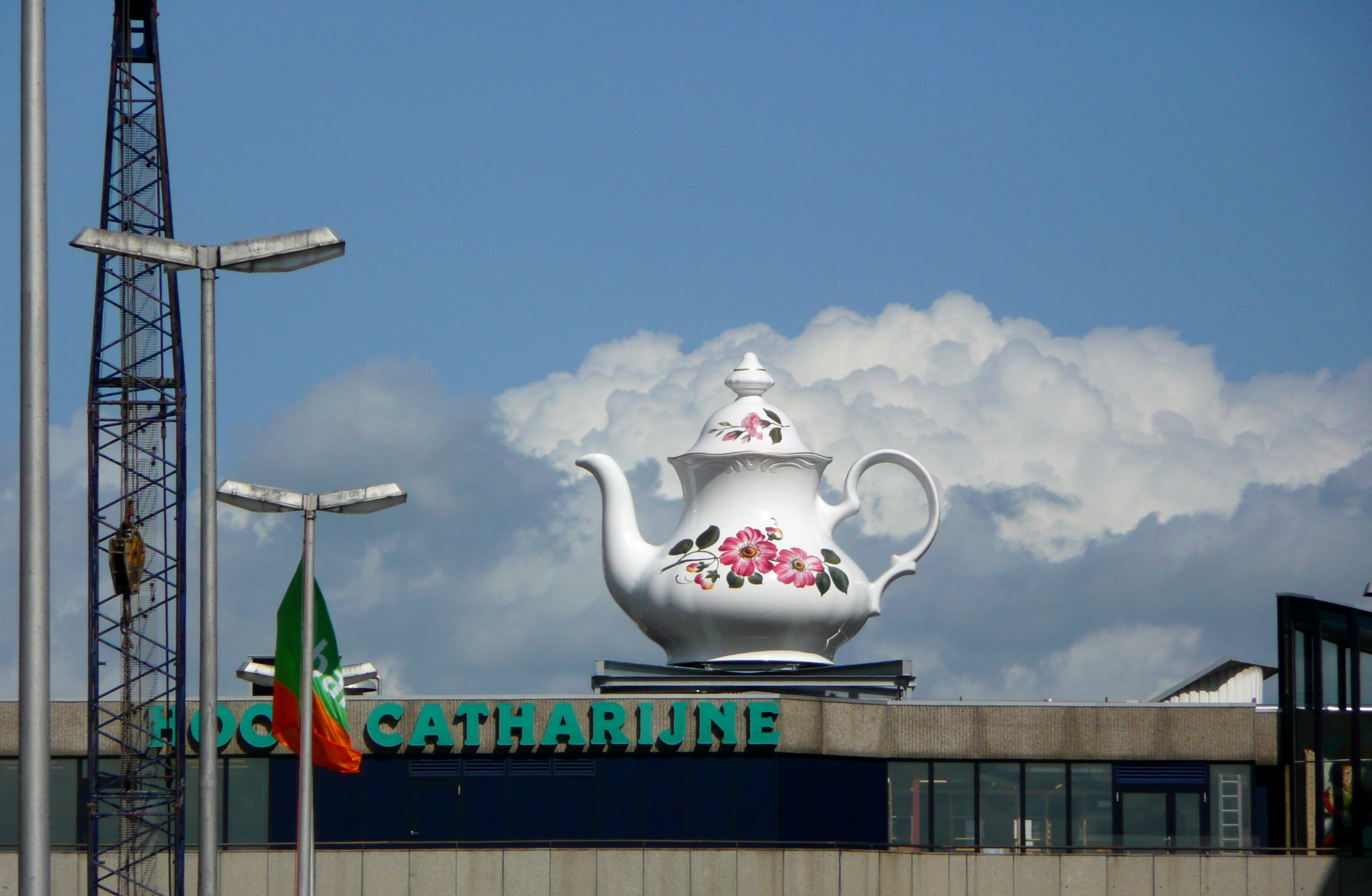 Lily van der Stokker, outdoor sculpture, Tea pot